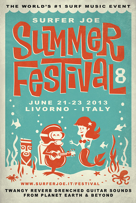 Poster of Surfer Joe Summer Festival 2013 by Fred Lammers